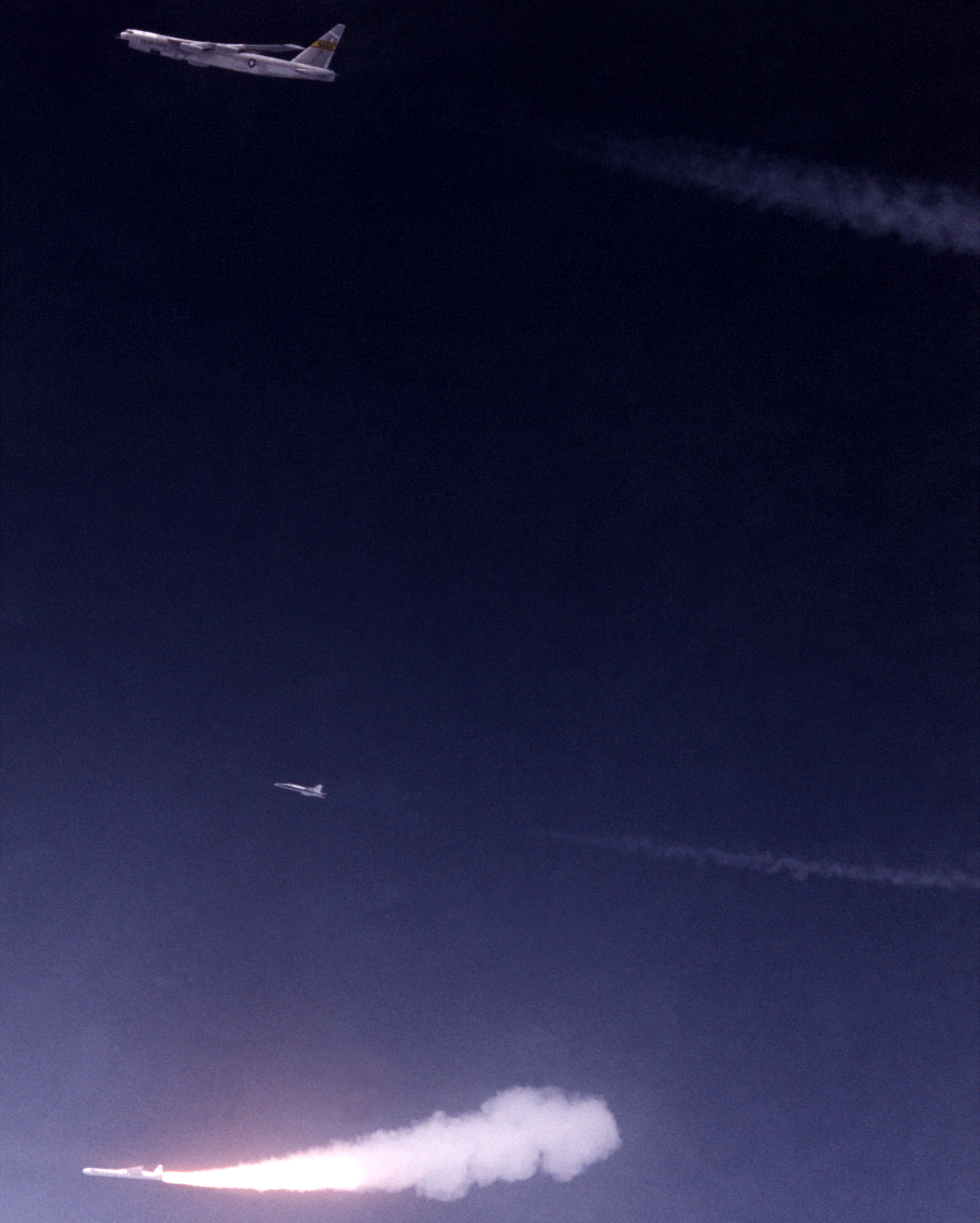 Pegasus firing after drop from a B-52.